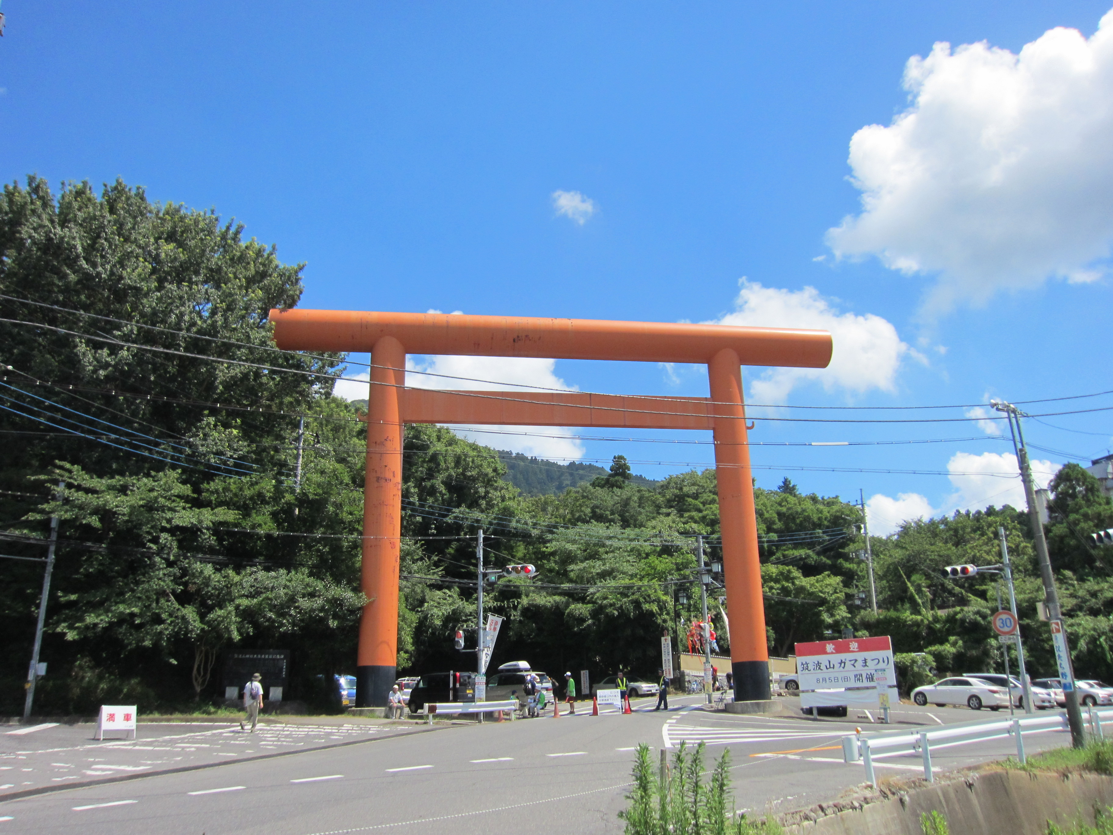 A large red torii leading to Tsukubasan-jinja in Tsukuba, Japan